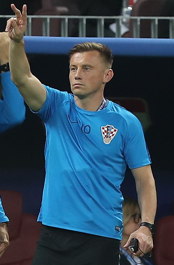 Croatia personnel during game v England, 11 July 2018